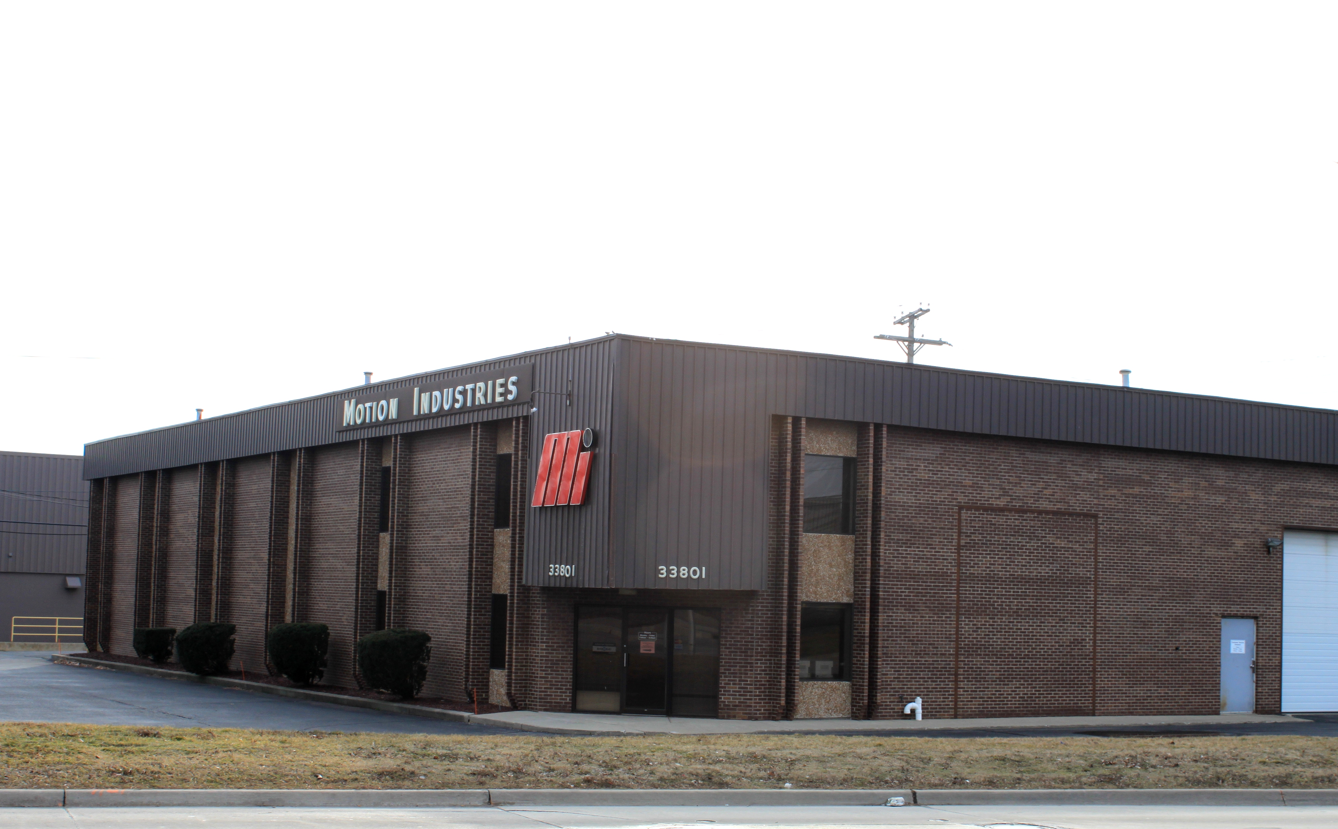 Motion Industries branch office, 33801 Schoolcraft Road, Livonia, Michigan.